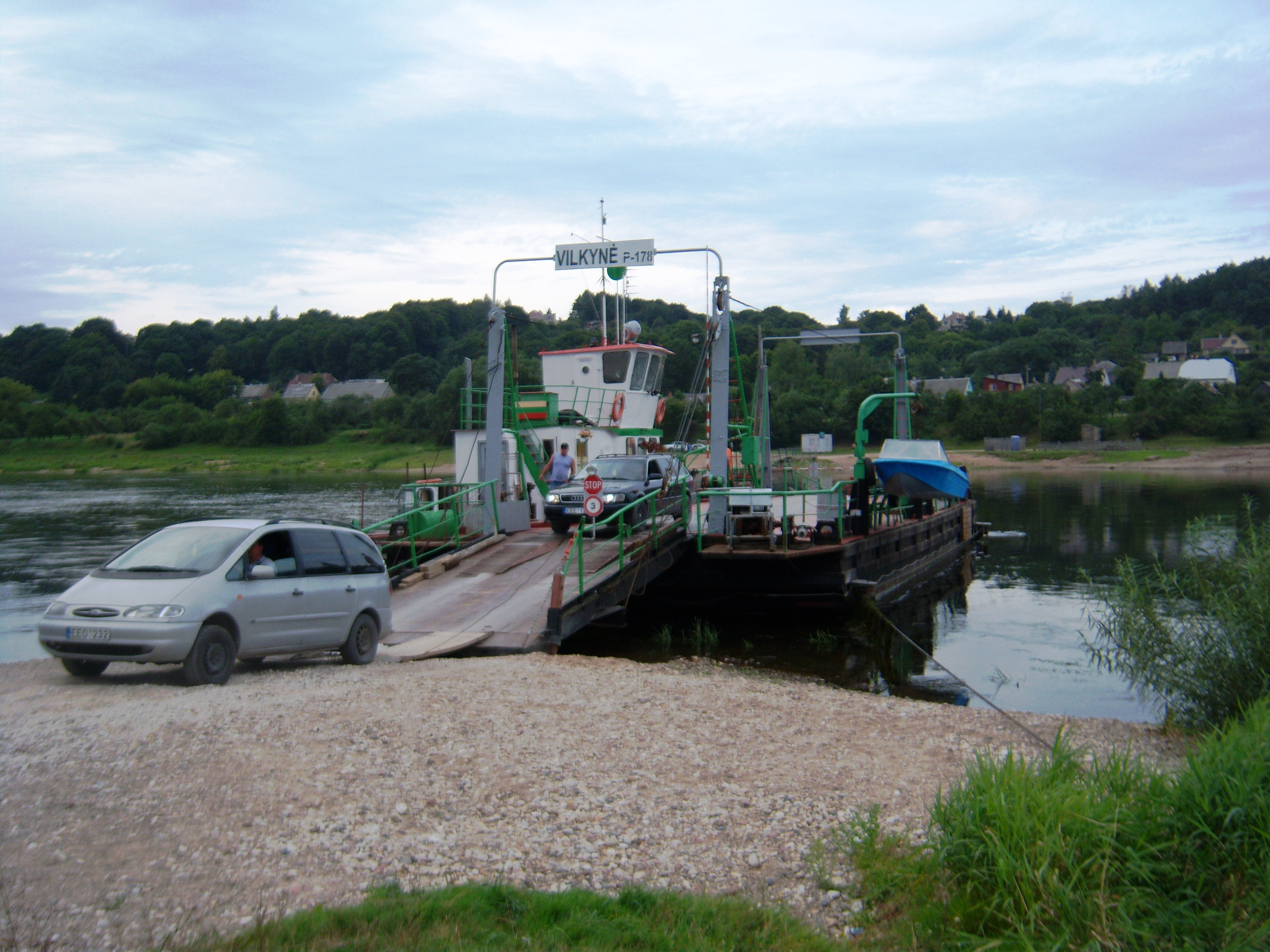 Cable ferry across Nemunas River, Vilkija. Lithuania